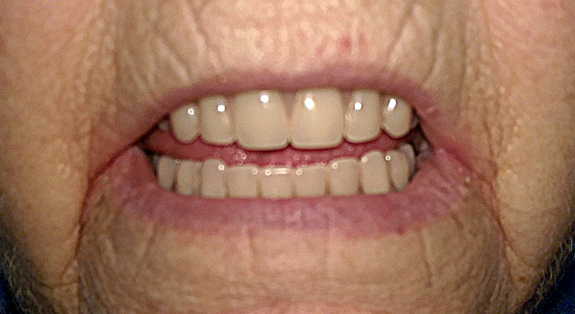 Female with angular cheilitis. She has full dentures, overclosure of the jaws and deep skin folds at corners of mouth This patient signed a consent form, a blank copy of which is pasted below: Consent Form for Clinical Photography • Your clinician would like to take a photograph • The image may be used for teaching purposes in a healthcare environment (e.g. a lecture or teaching session with students or junior doctors), in presentations for medical conferences, in professional medical publications (including journals and textbooks), or in websites (e.g. medical articles on Wikipedia under the Creative Commons Attribution-Share Alike 3.0 Unported copyright license*) • The image will be taken on a mobile device and then promptly transferred to a secure hard drive along with an electronic copy of this form to be stored for reference • You will NEVER be personally identifiable from the image, and you can view it after it has been taken to check you are happy with it • Your personal information, such as name and address will NEVER be disclosed with the image. Very general details, such as your rough age and gender may be disclosed. Some medical details about what is shown in the image may also be disclosed, e.g. the diagnosis or appropriate terminology describing the appearance I understand and consent to the above Patient name ………………………………………… Signed (patient / parent / legal guardian) ………………………………………… Signed (clinician) ………………………………………… Date ………………………………………… CC BY-SA 3.0 for details please